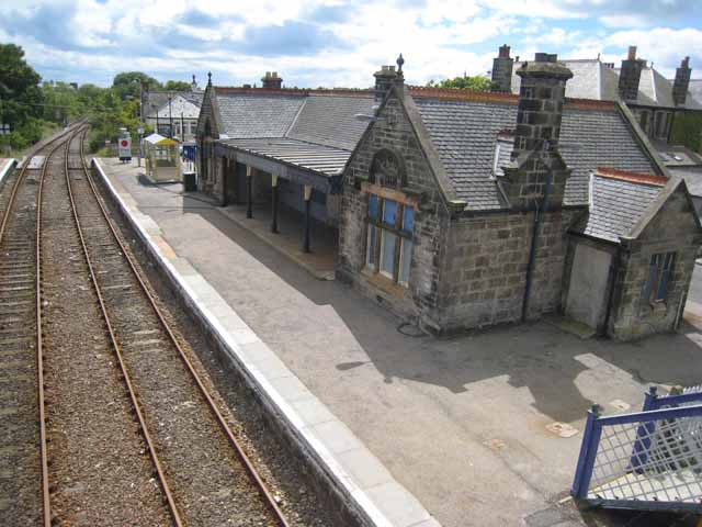 Brora Station As with so many small stations, the original elegant station buildings stand shuttered up and empty; whilst customers are reduced to seeking refuge in the draughty bus-type shelter at the end of the platform.